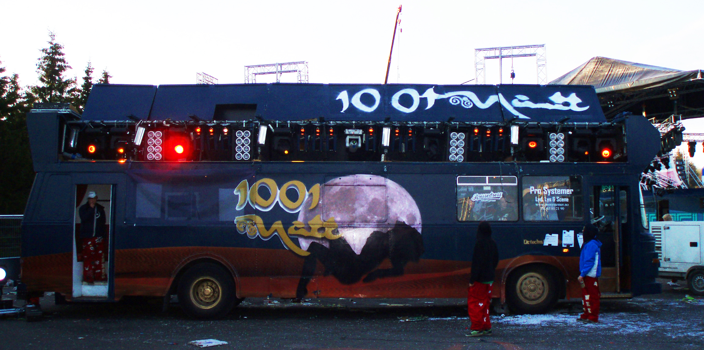 Picture of the Russ Buss "1001 Natt / Arabian Adventures" taken during "Tryvannstreffet" in 2007.